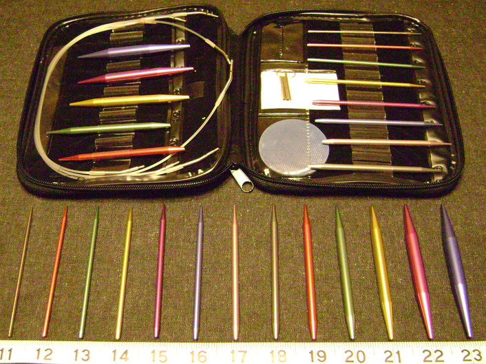 Set of knitting needles in which the needle tips may be swapped in and out by screwing them onto the nylon cords shown at the upper left.